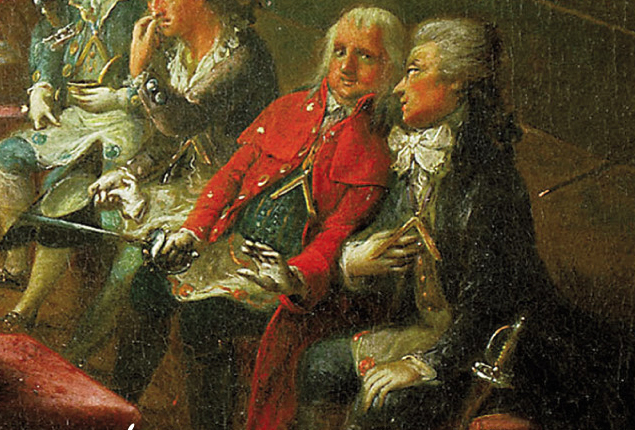 Mozart in his Freemason's Lodge